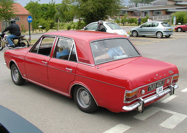 Ford Cortina Mark 2, seen at a Classics Rally at Slimbridge, Gloucestershire, England, in June 2003.